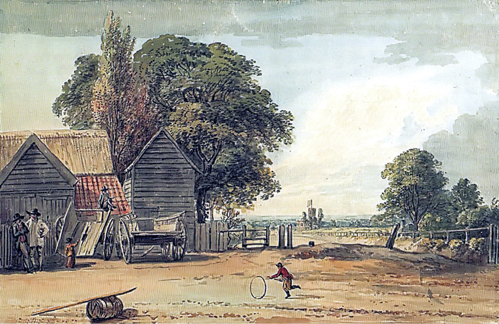 View of rural Woolwich from Green's End. The area depicted is now Powis Street. Watercolour of 1783 by local artist Paul Sandby.